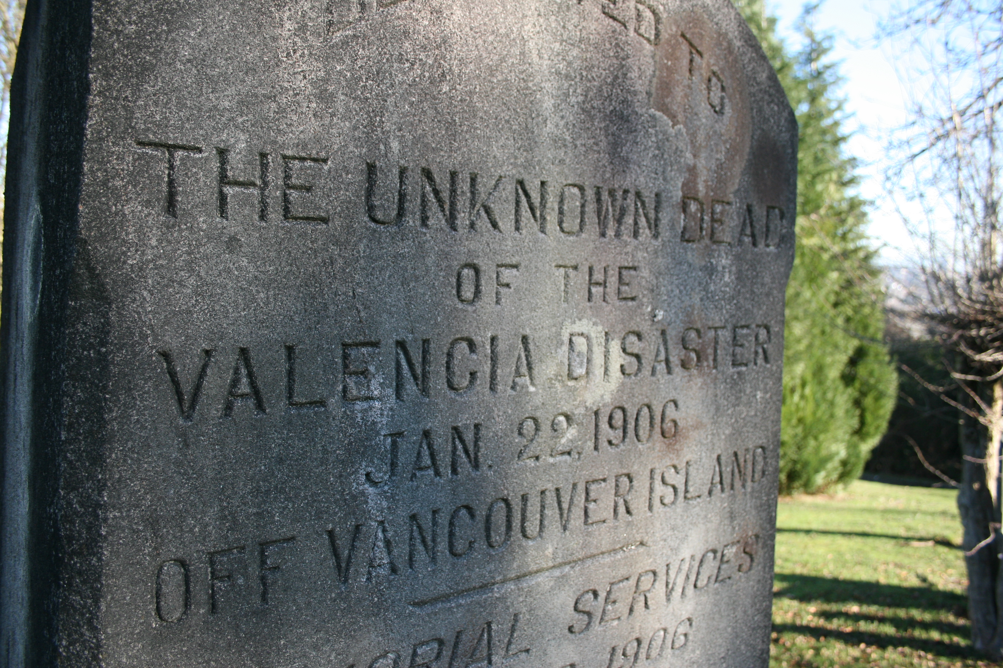 Grave marker for unknown remains recovered from the Valencia disaster. Queen Anne cemetery, Seattle, Washington.